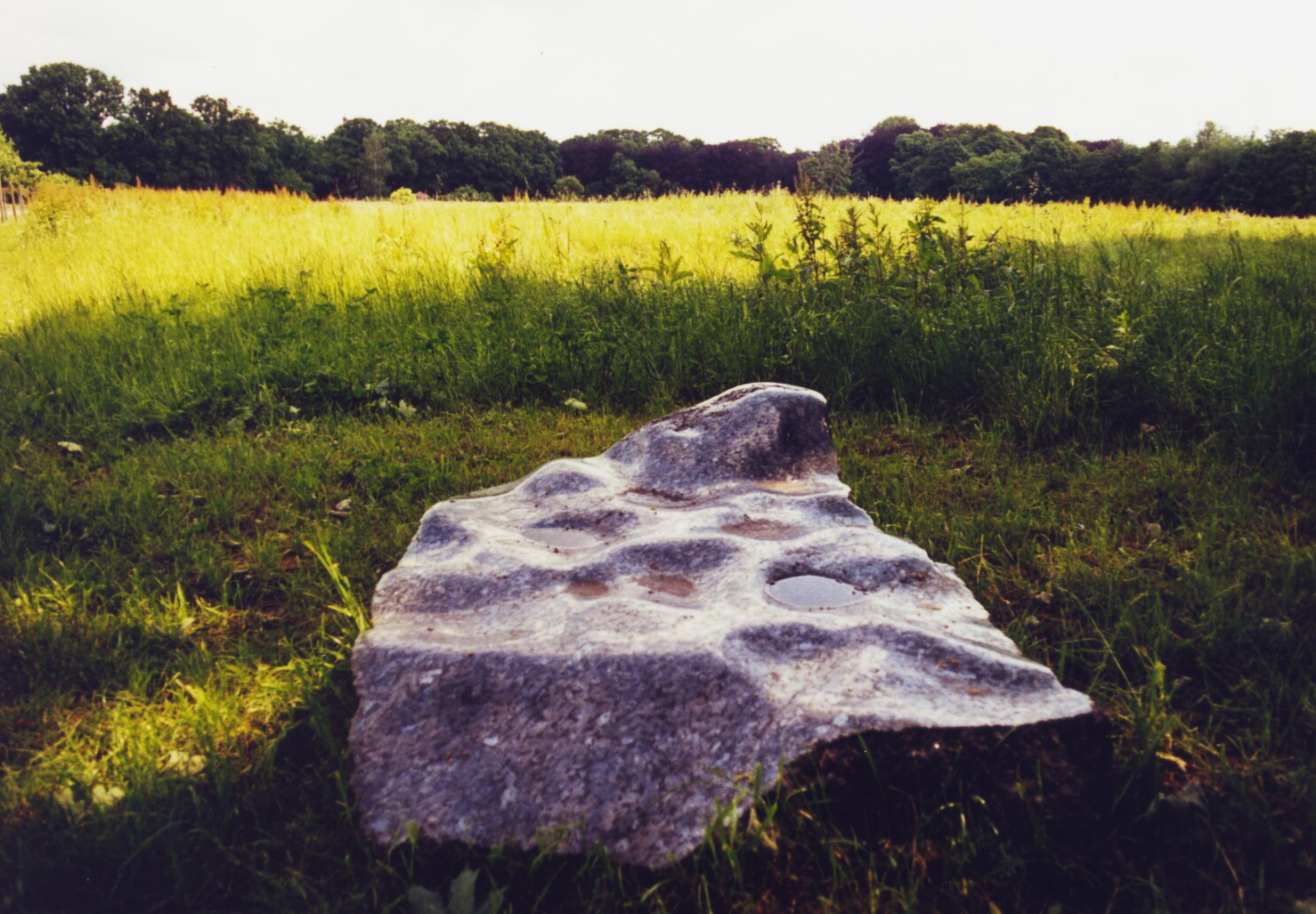 15 Behre, Wilfried "ohne Titel", Marmor, 1996